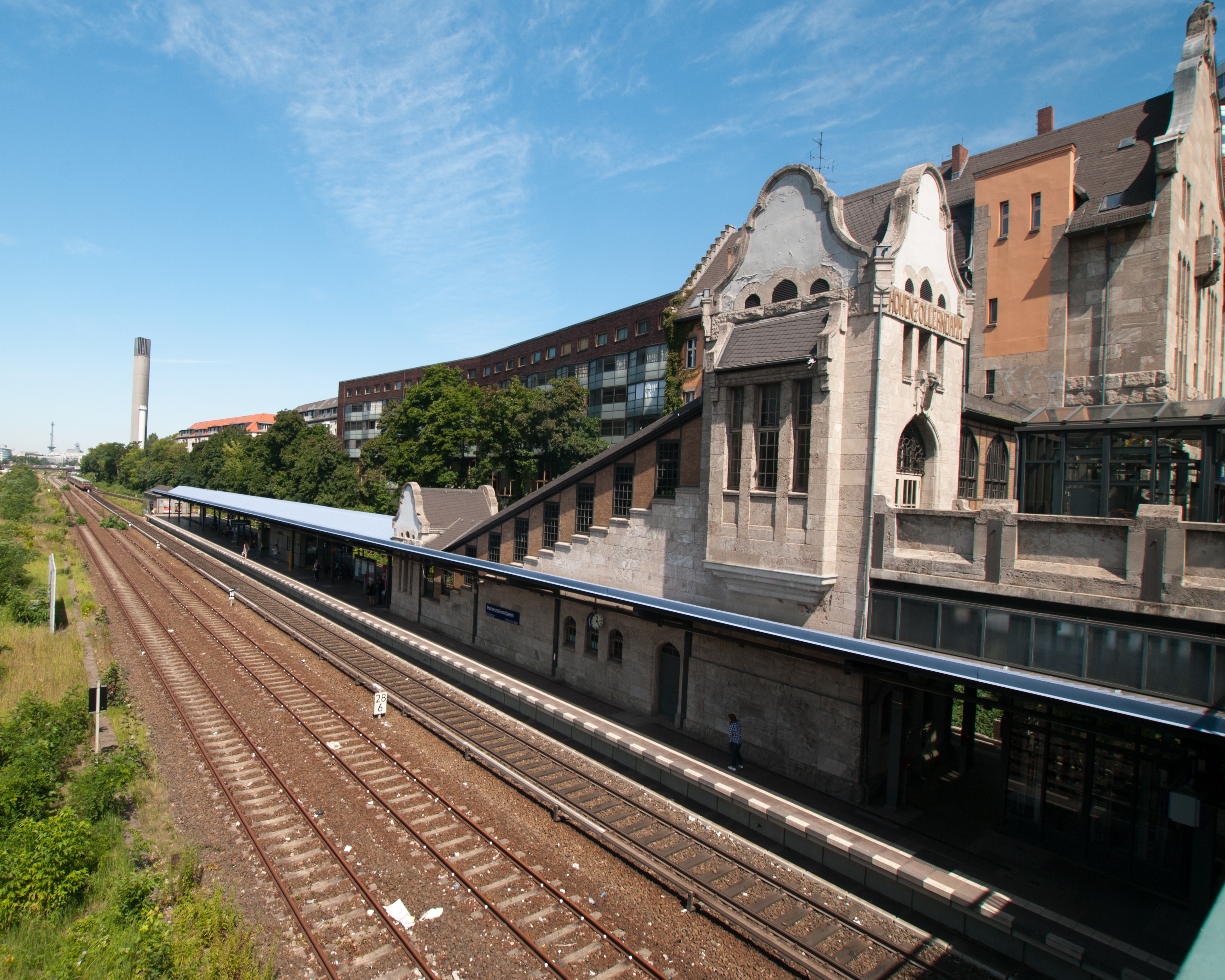 S-Bahn station Hohenzollerndamm in Berlin